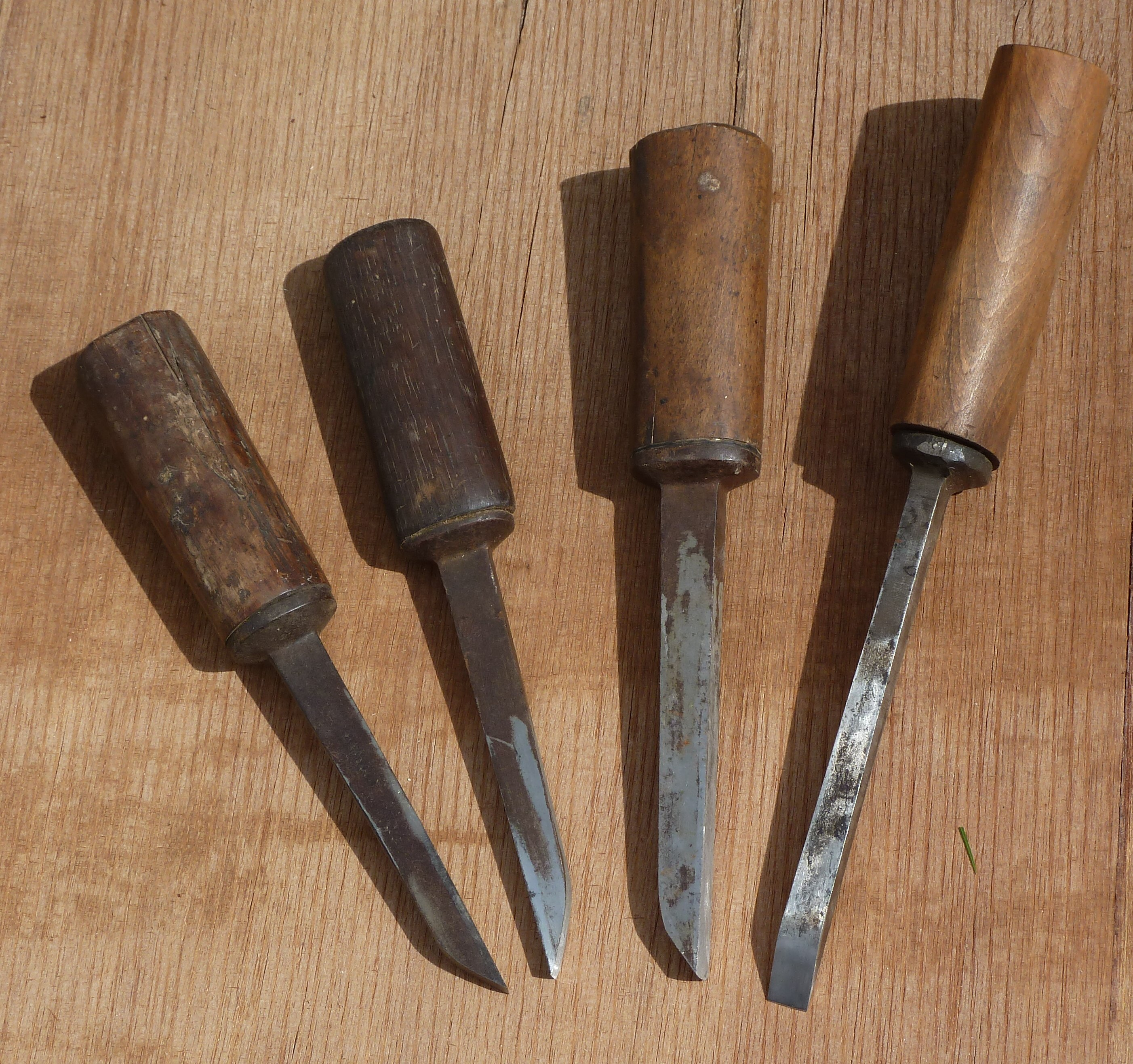 'Pigsticker' mortise chisels. Note the rounded upper part of the bevels, rather than the usual sharp arris. This assists their use as a lever, when prying out chips.